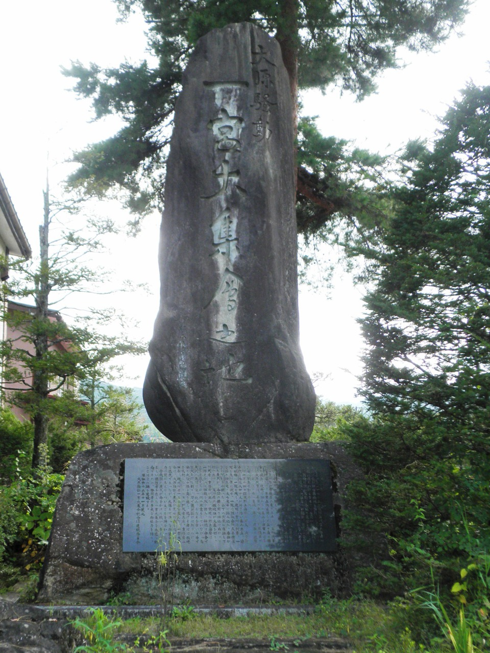 Ōhara-Sōdō Ichinomiya Daishūkai Monument in front of Minashi Shrine in Takayama, Gifu.